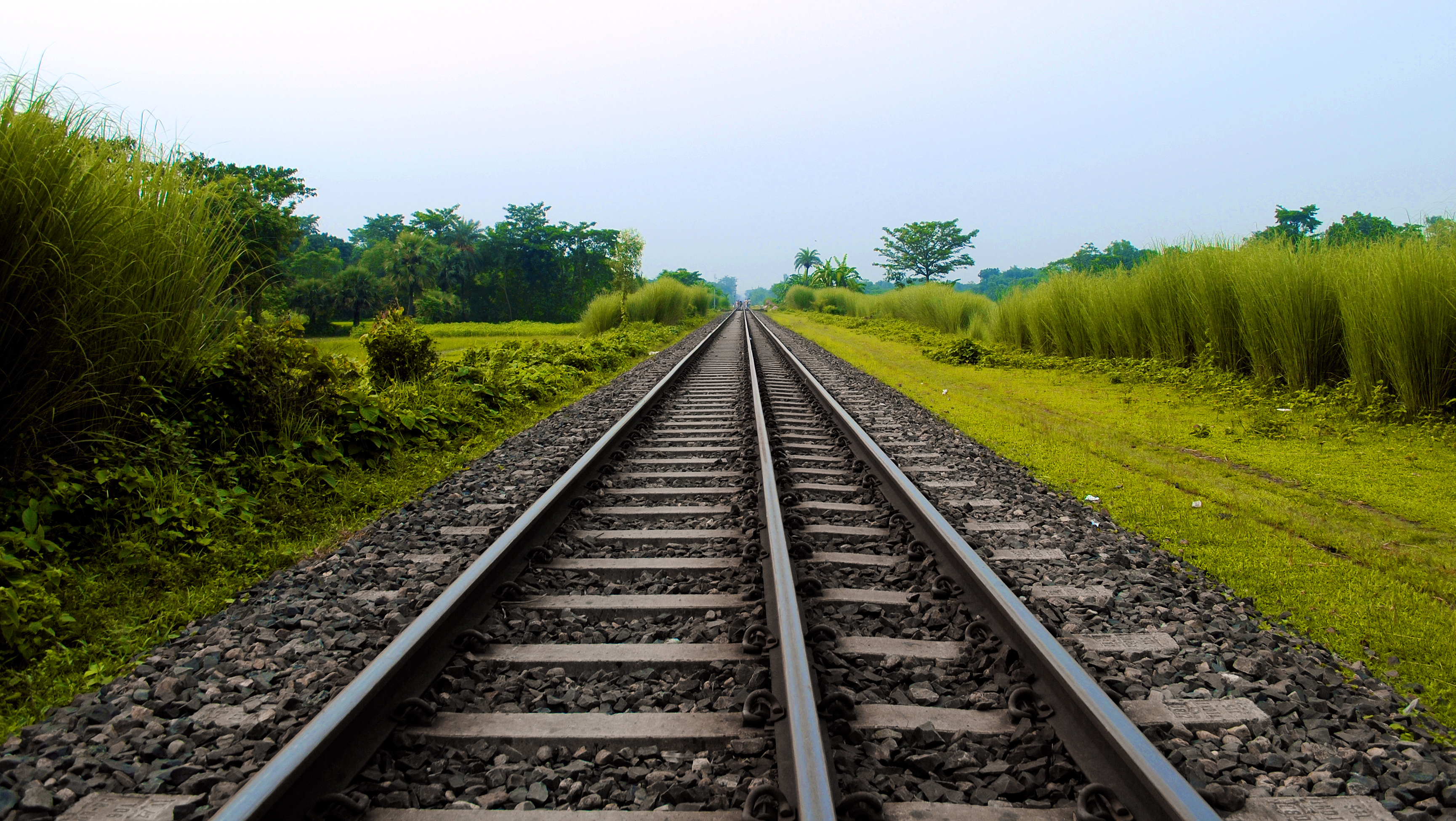 Dual gauge (Indian broad gauge and meter gauge) railway line near Jaipurhat, Rajshahi divison, Bangladesh.